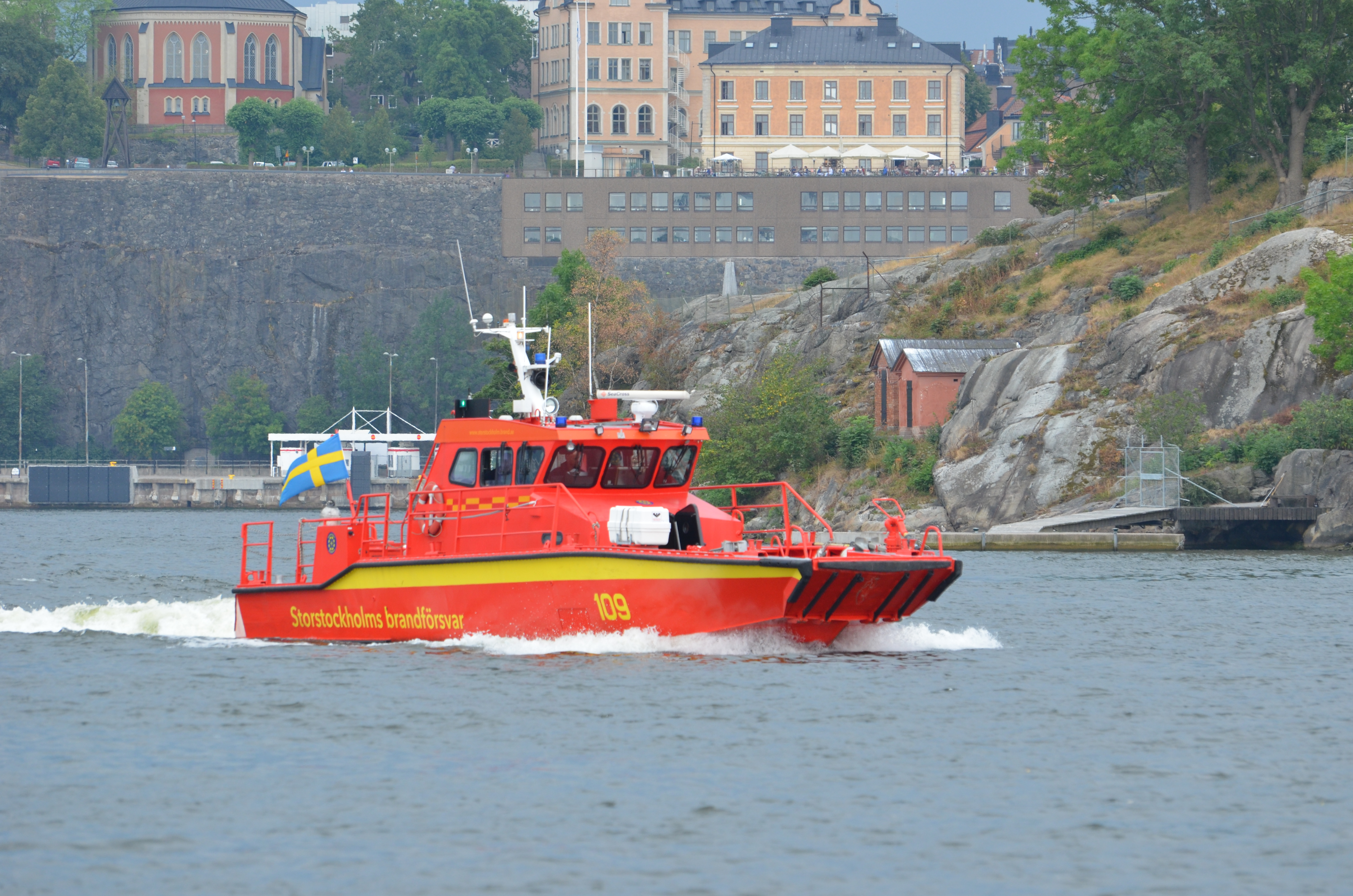 Brandbåt 109, Fire squadron boat in Stockholm harbour